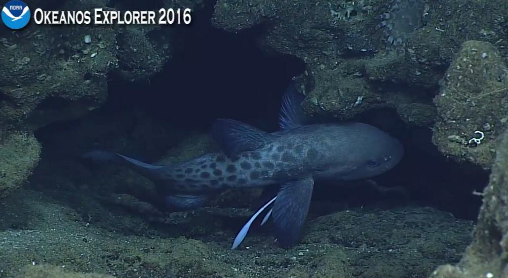 A species of jellynose fish, Guentherus katoi is a recent addition to the genus discovered in Japan in 2008. This photo was taken during NOAA's CAPSTONE project in the Mariana Trench on Esmerelda Bank.